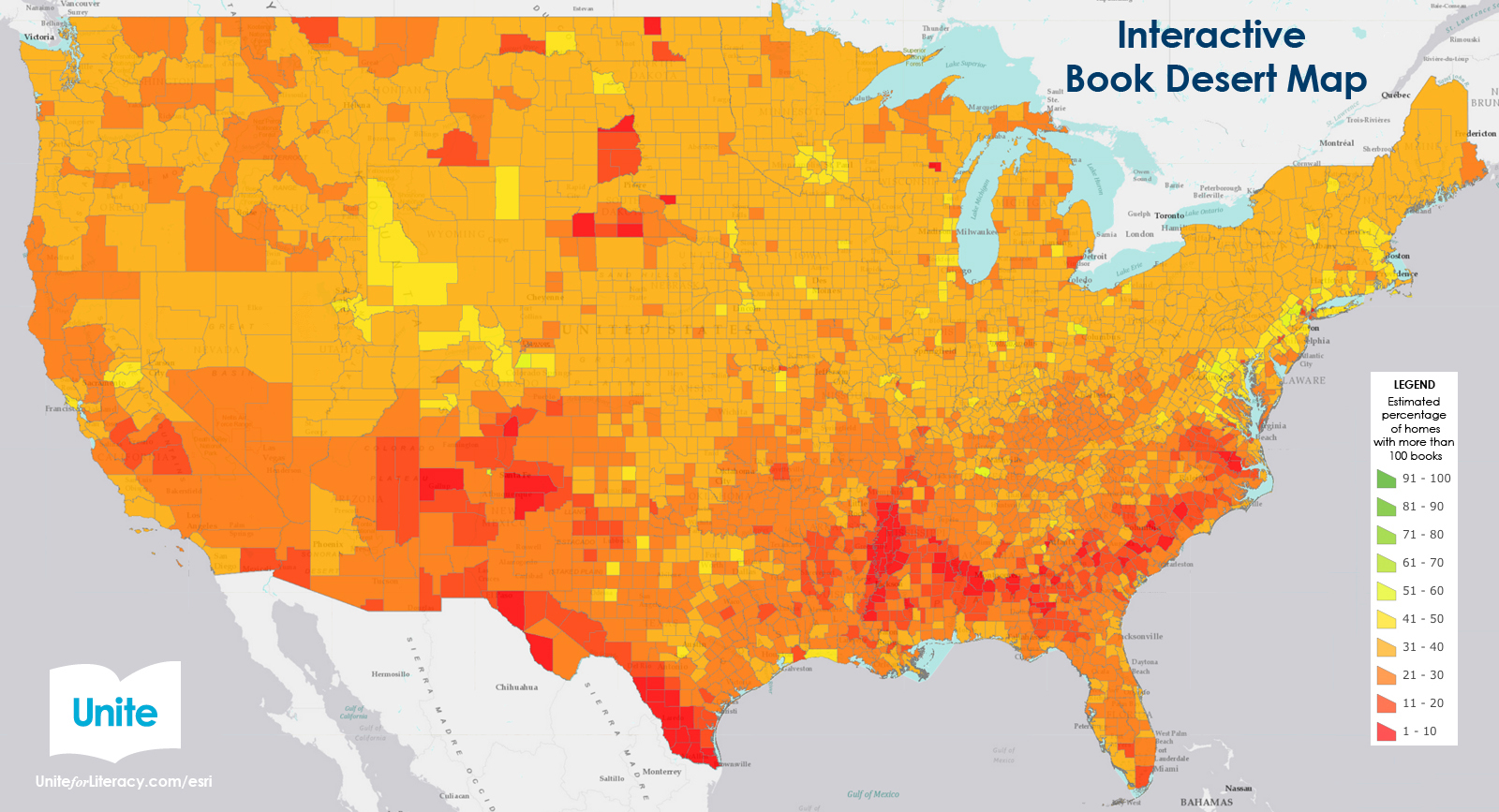 US Book Desert map from Unite for Literacy